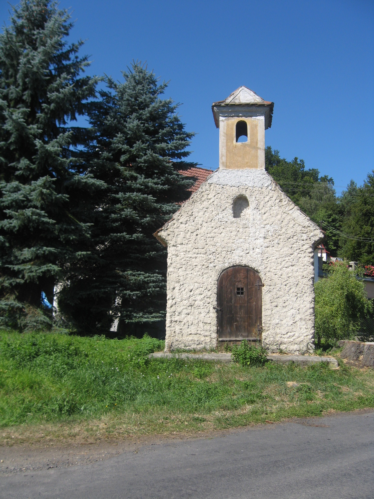 Chapel in Vítkovice